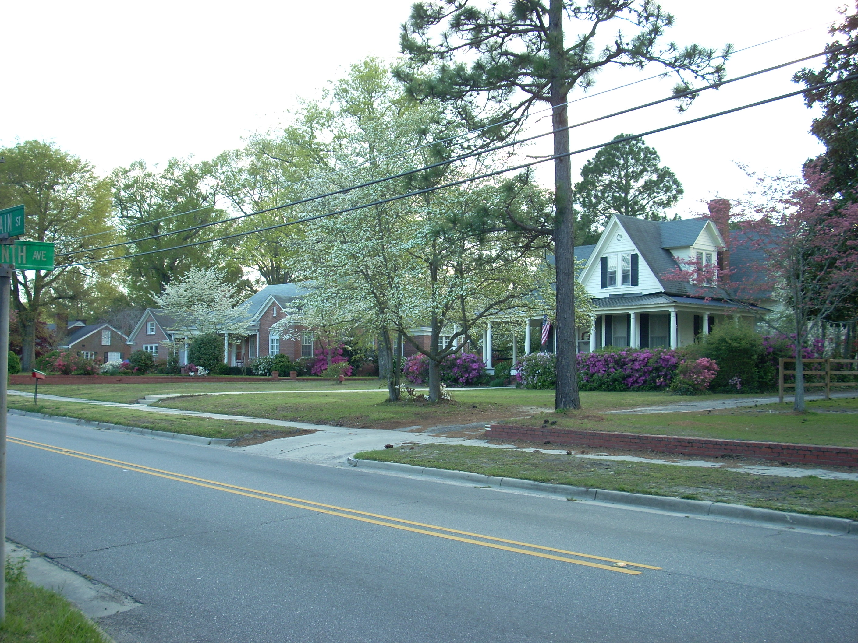 A view of Red Springs